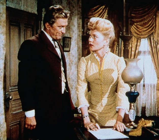 Kirk Douglas & Patrice Wymore in The Big Trees - cropped screenshot